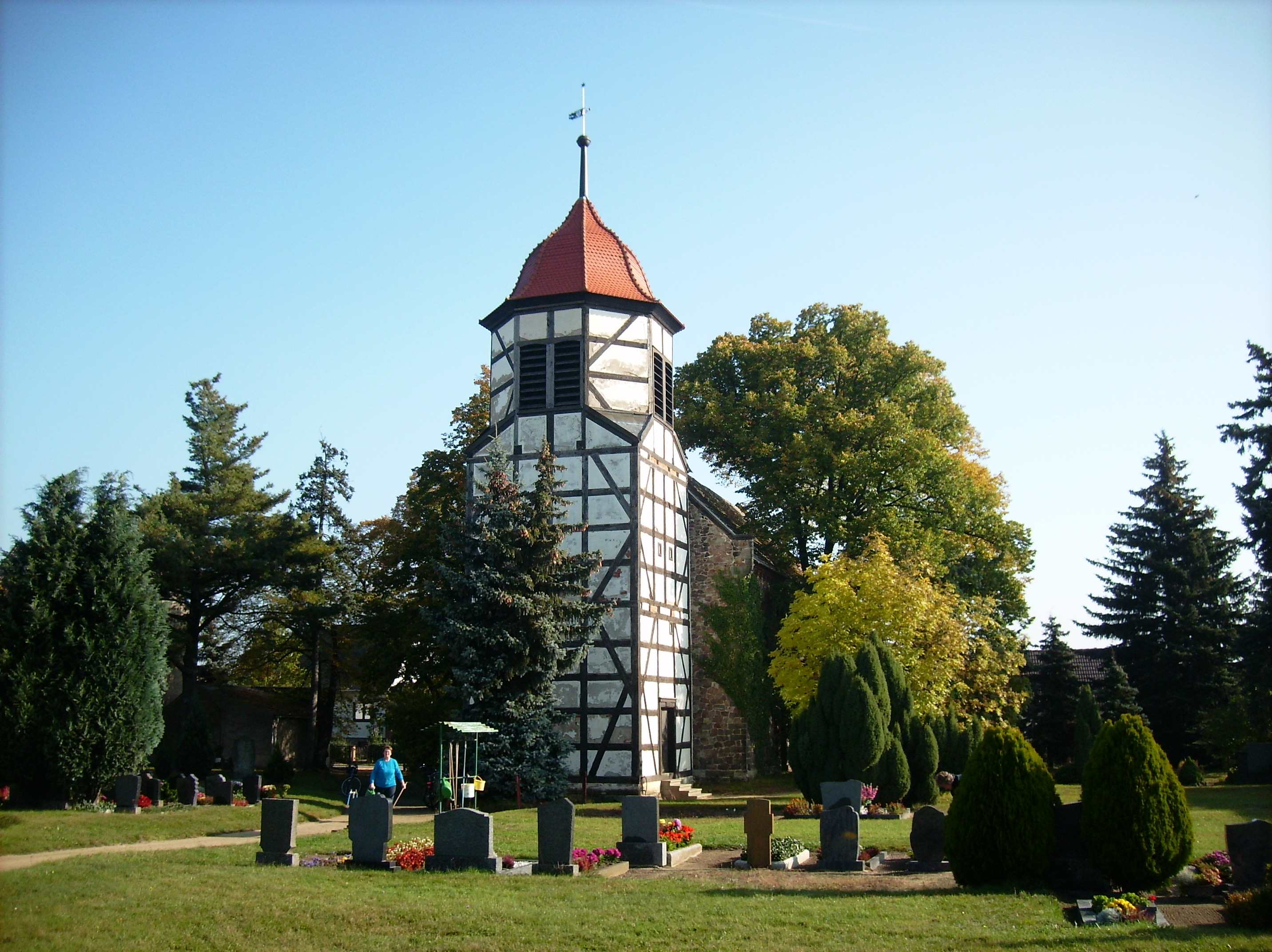 Church of the village of Kölsa (Falkenberg/Elster, Elbe-Elster district, Brandenburg)